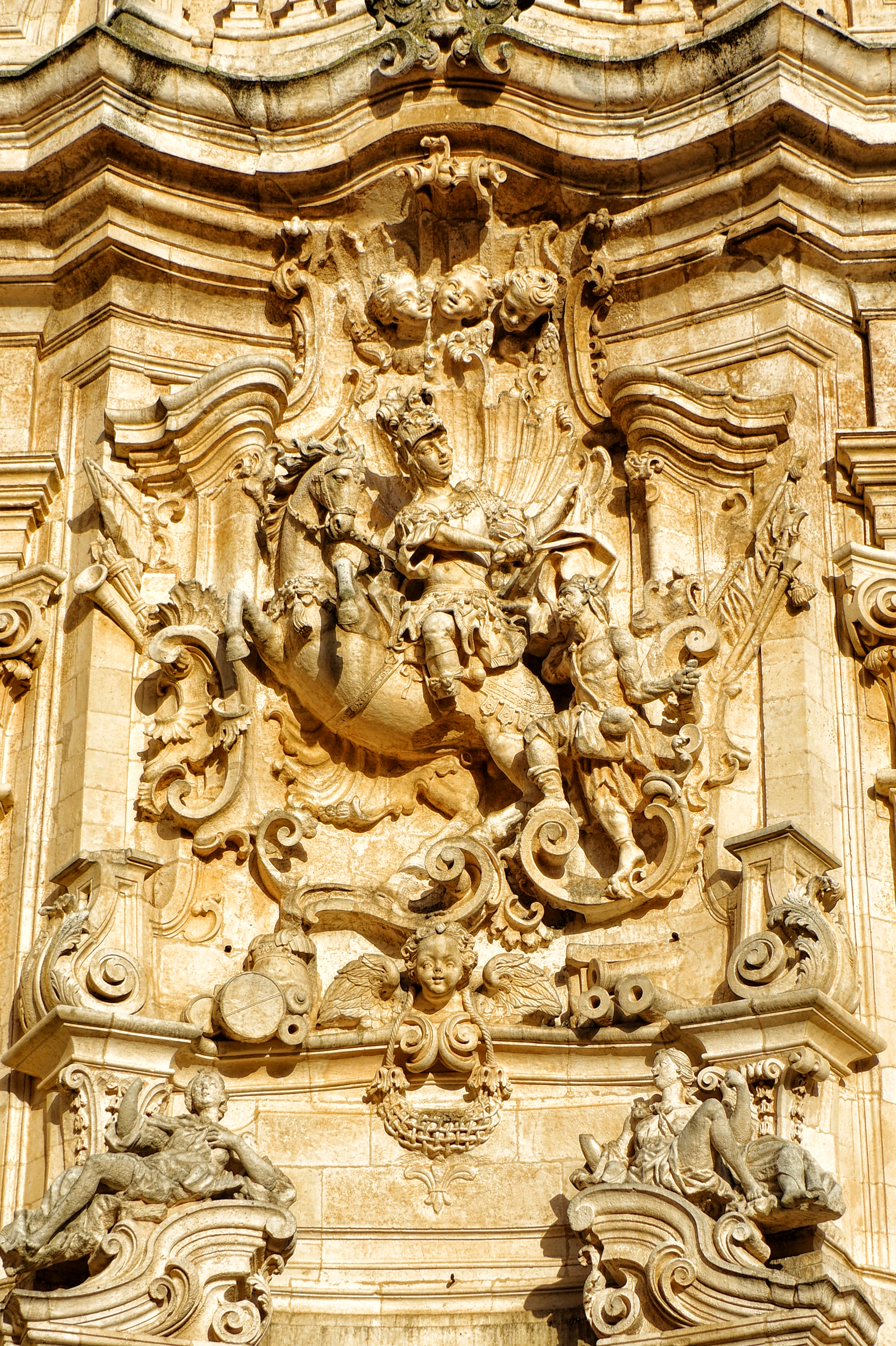 Italy, Martina Franca, San Martino